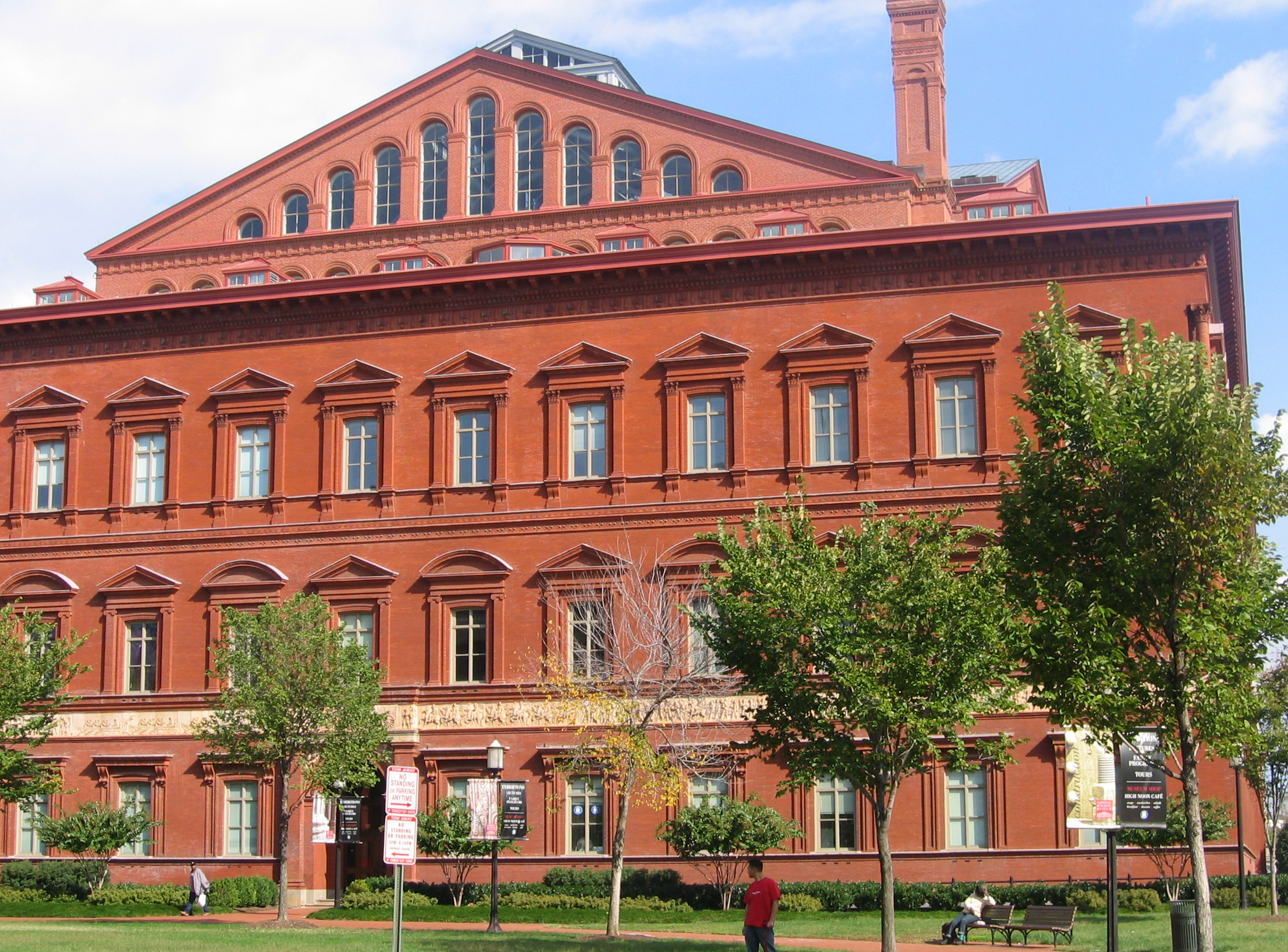 The Pension Building (National Building Museum), in Washington, D.C.